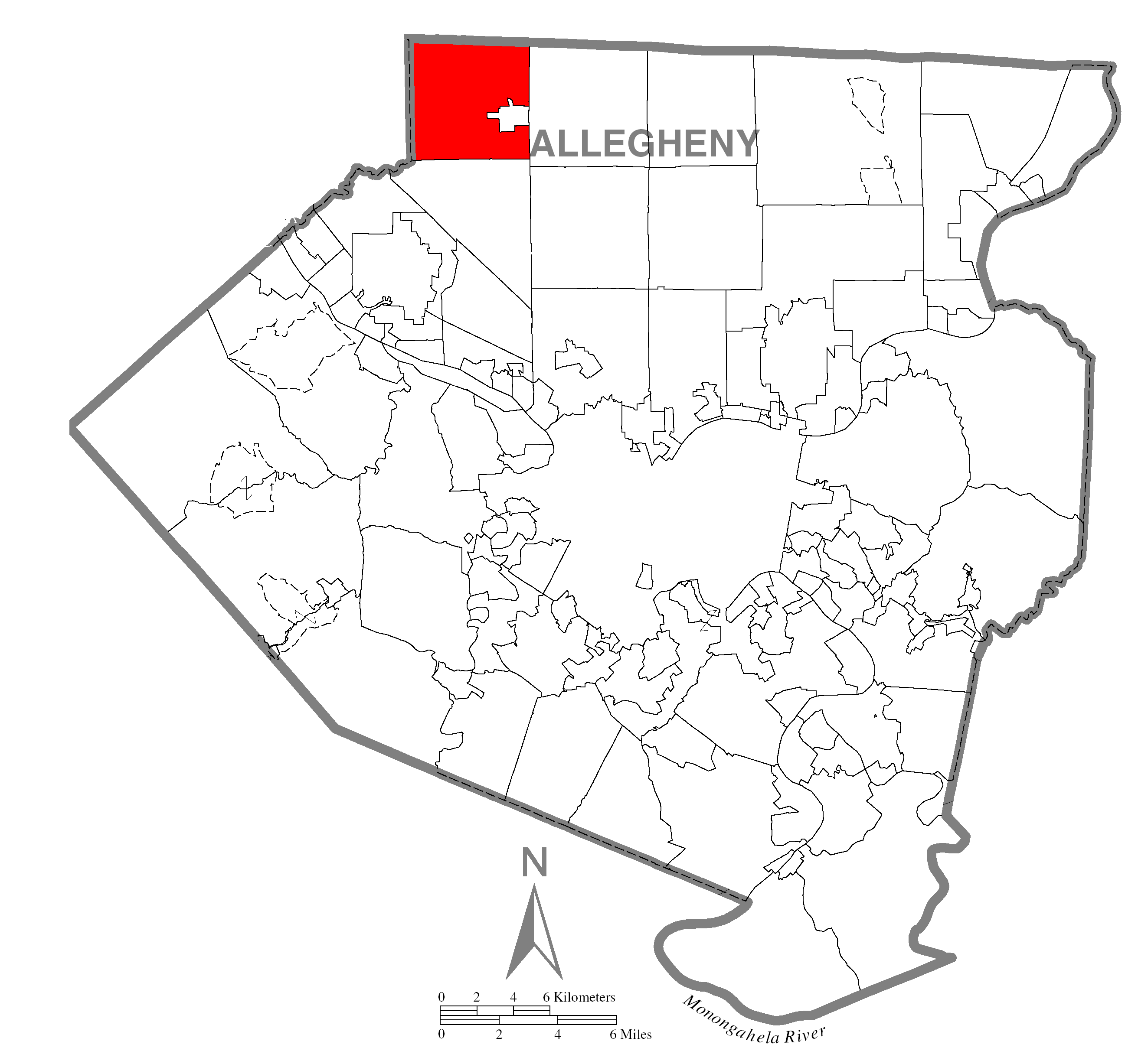 A map of Allegheny County showing Marshall Township, Pennsylvania (alternate) highlighted on the map.